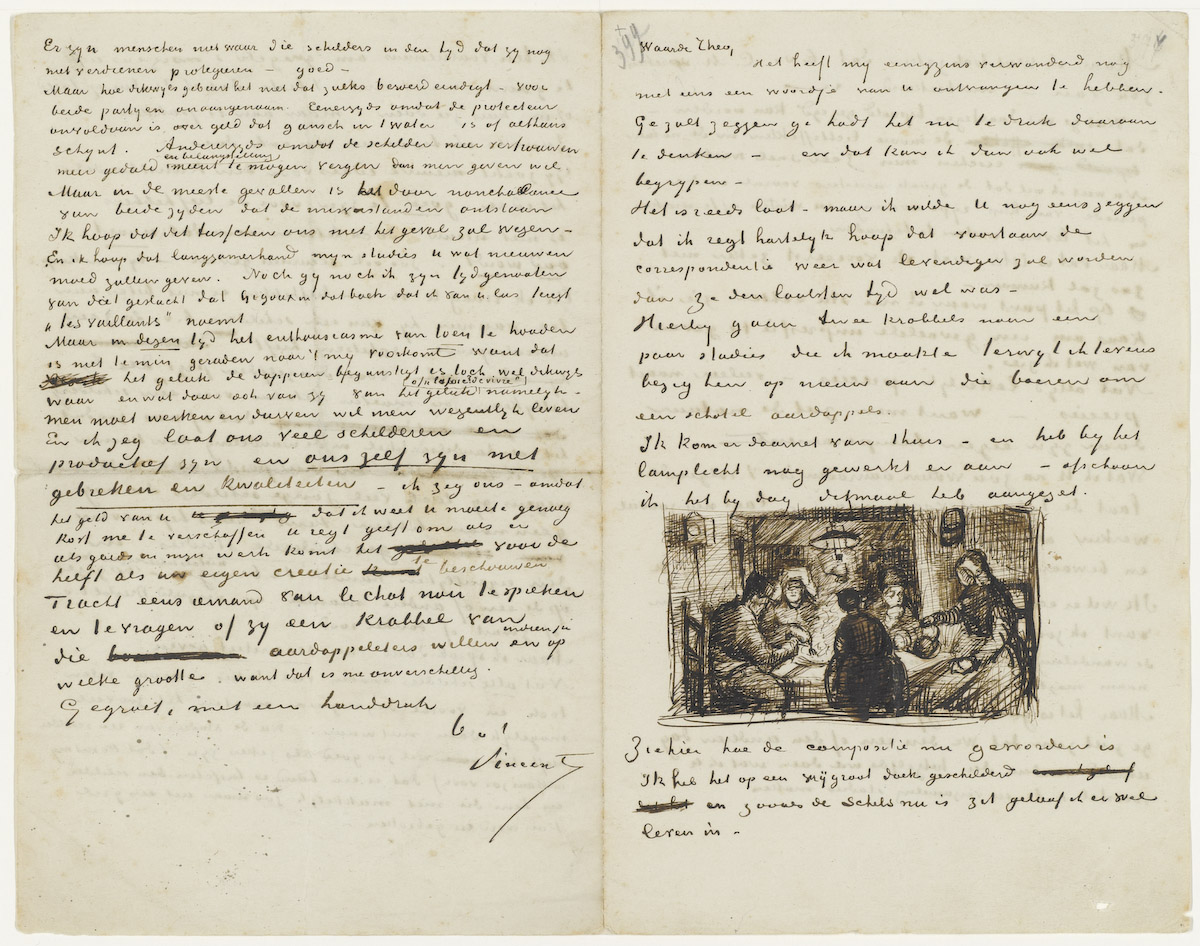 A letter from Vincent Van Gogh to his brother Theo Van Gogh, Nuenen, Thursday, 9 April 1885. The letter includes a sketch of his first masterpiece The Potato Eaters